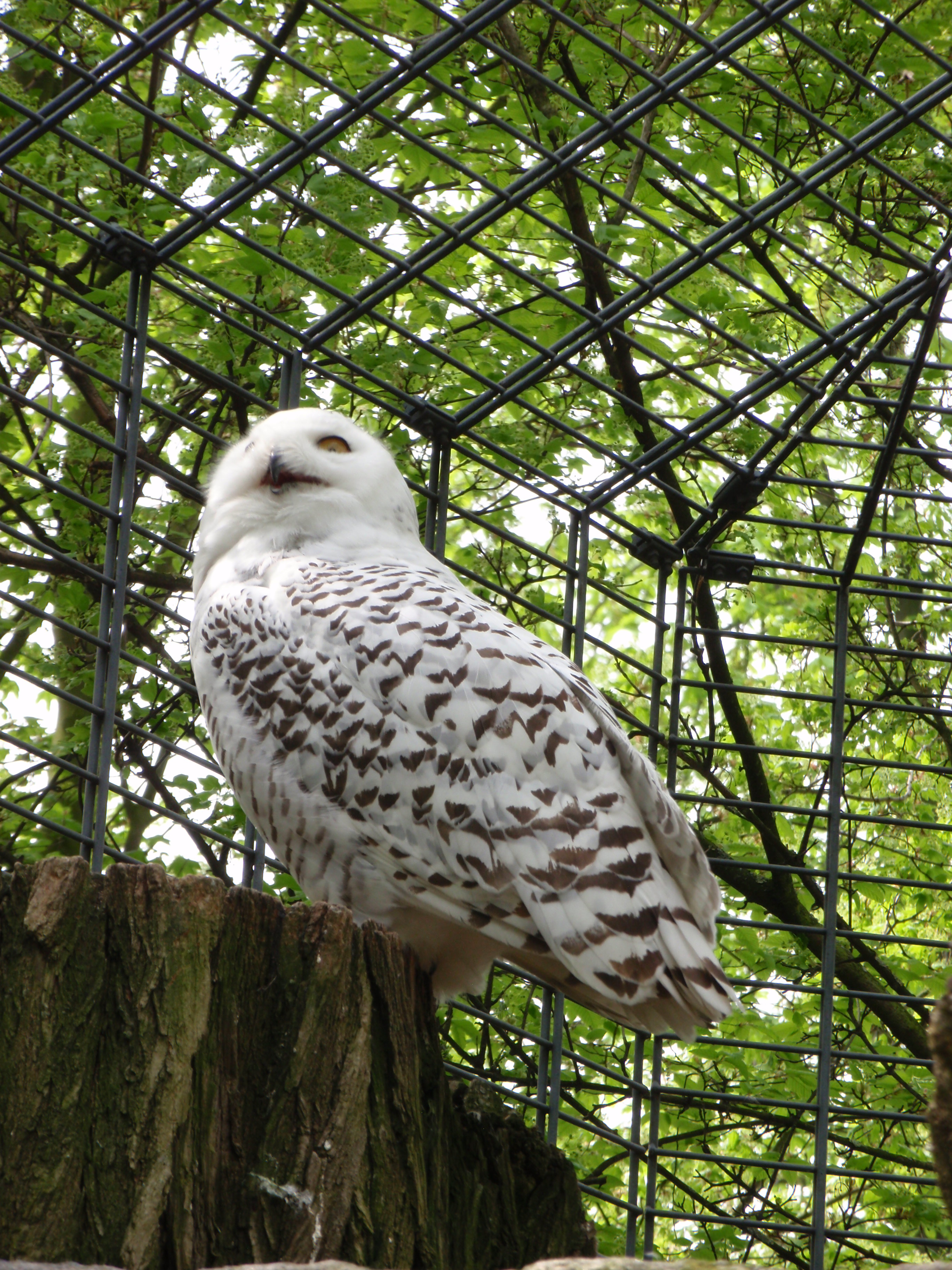 Snowy Owl in the Luisenpark Mannheim (Germany)